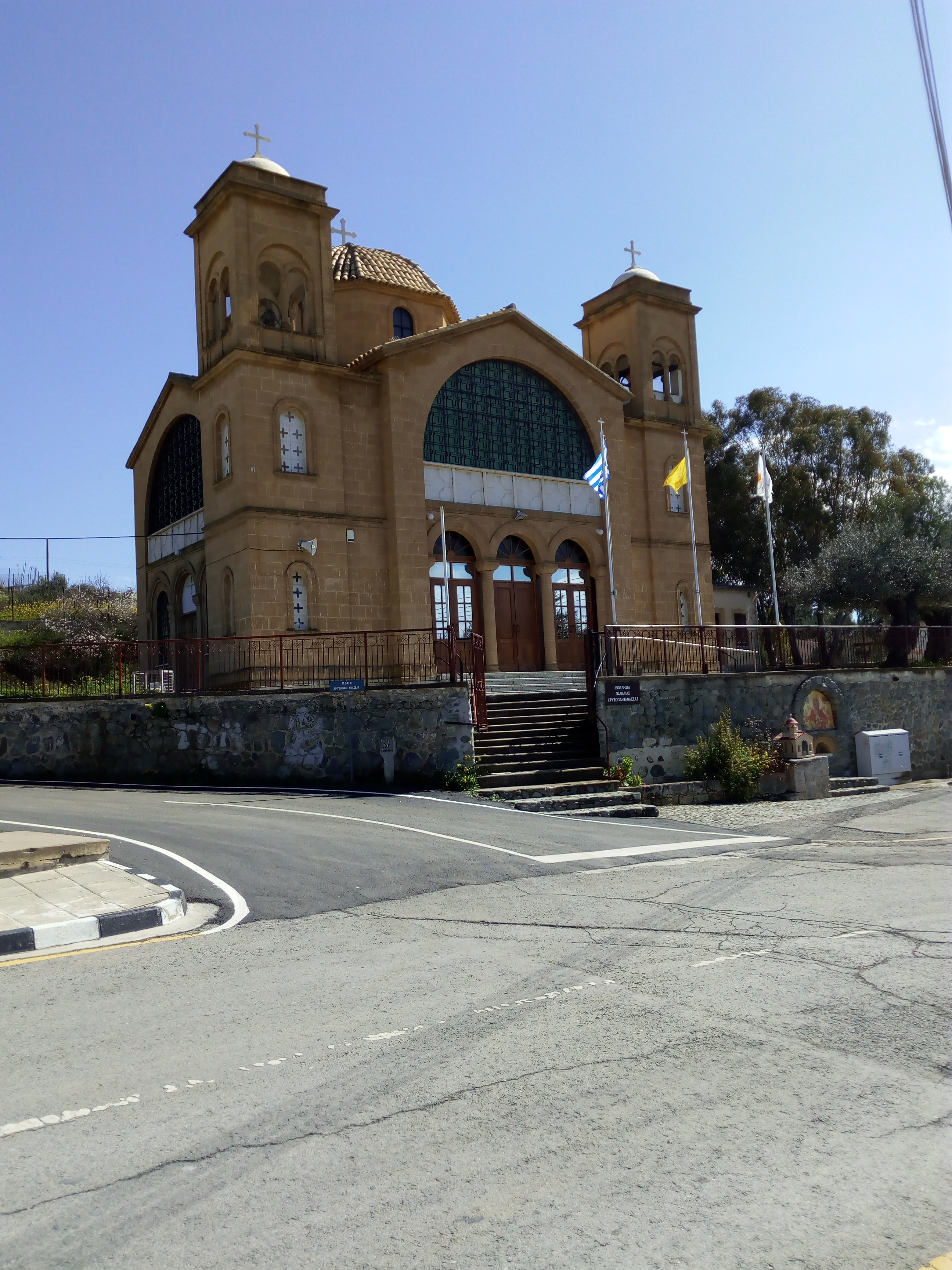 Chrysopantanassa's new Orthodox church in Malounta, Cyprus.